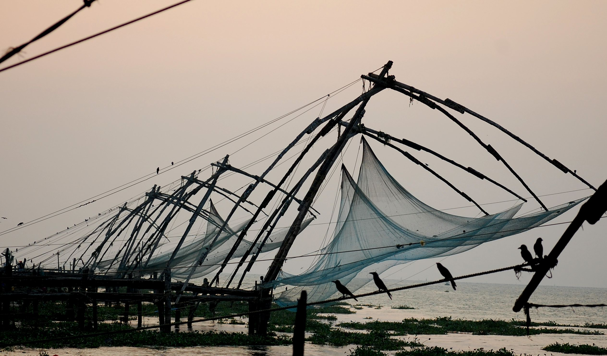 chinese fishing nets found in fort cochin kerala